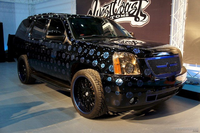 The exterior of the custom built car for Hewlett Packard by West Coast Customs